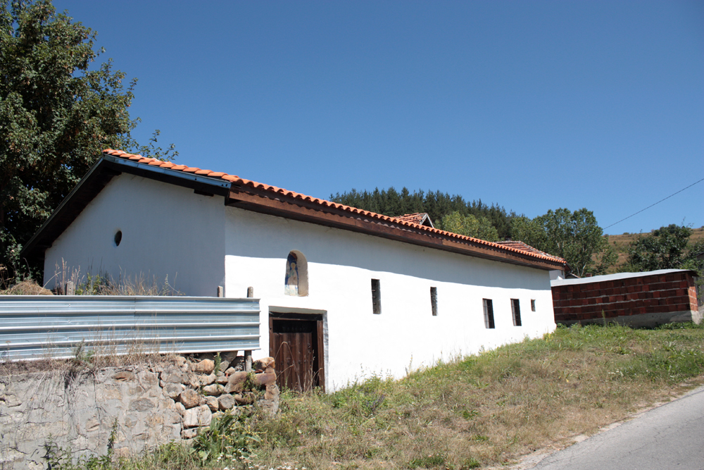 The St.Peter and Paul Church (16th century) of Mala Tsarkva